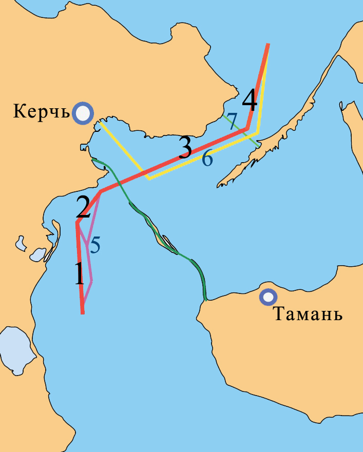 of canal Kerch-Yenikale canal